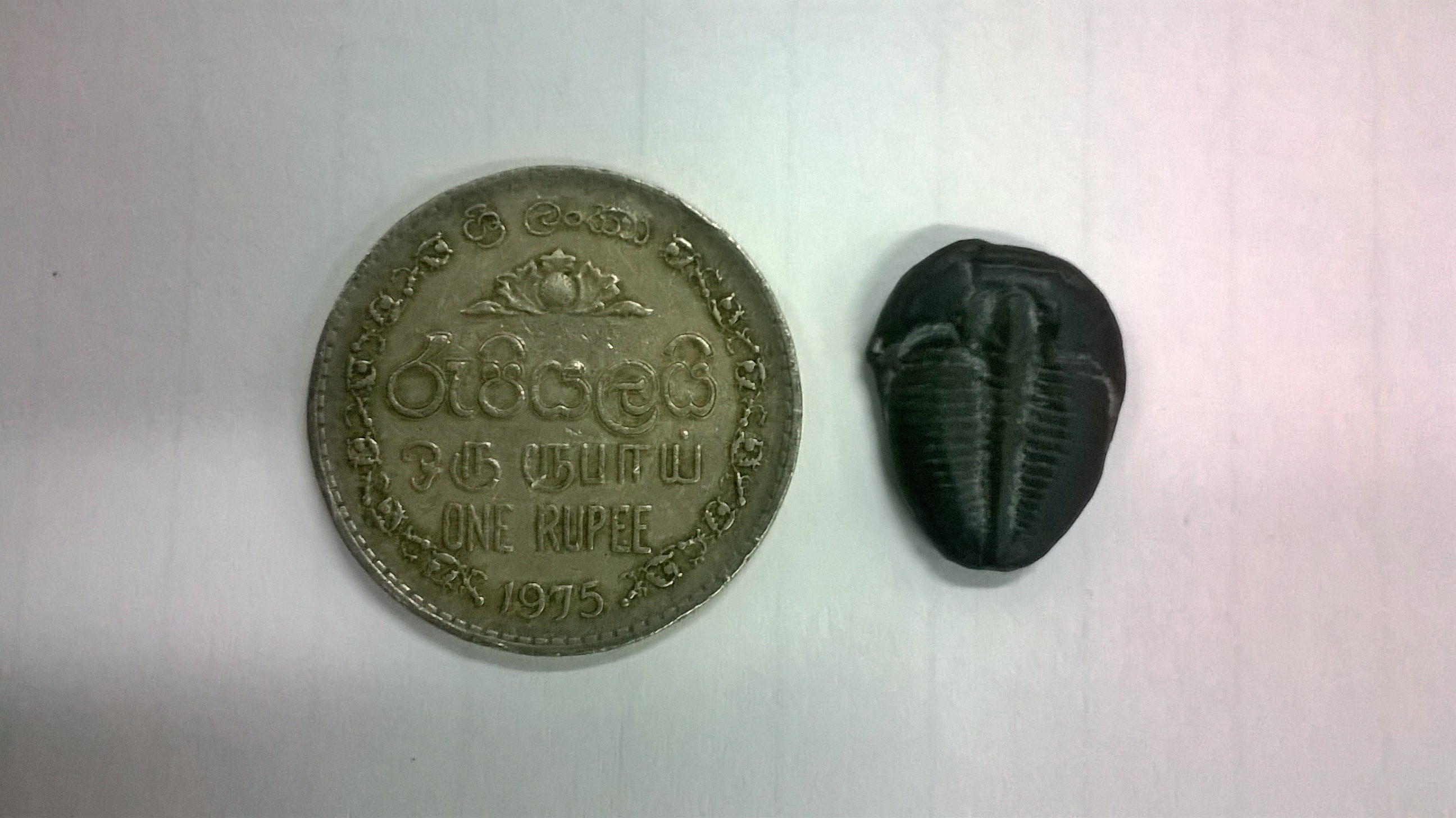 Trilobite fossil with one rupee coin